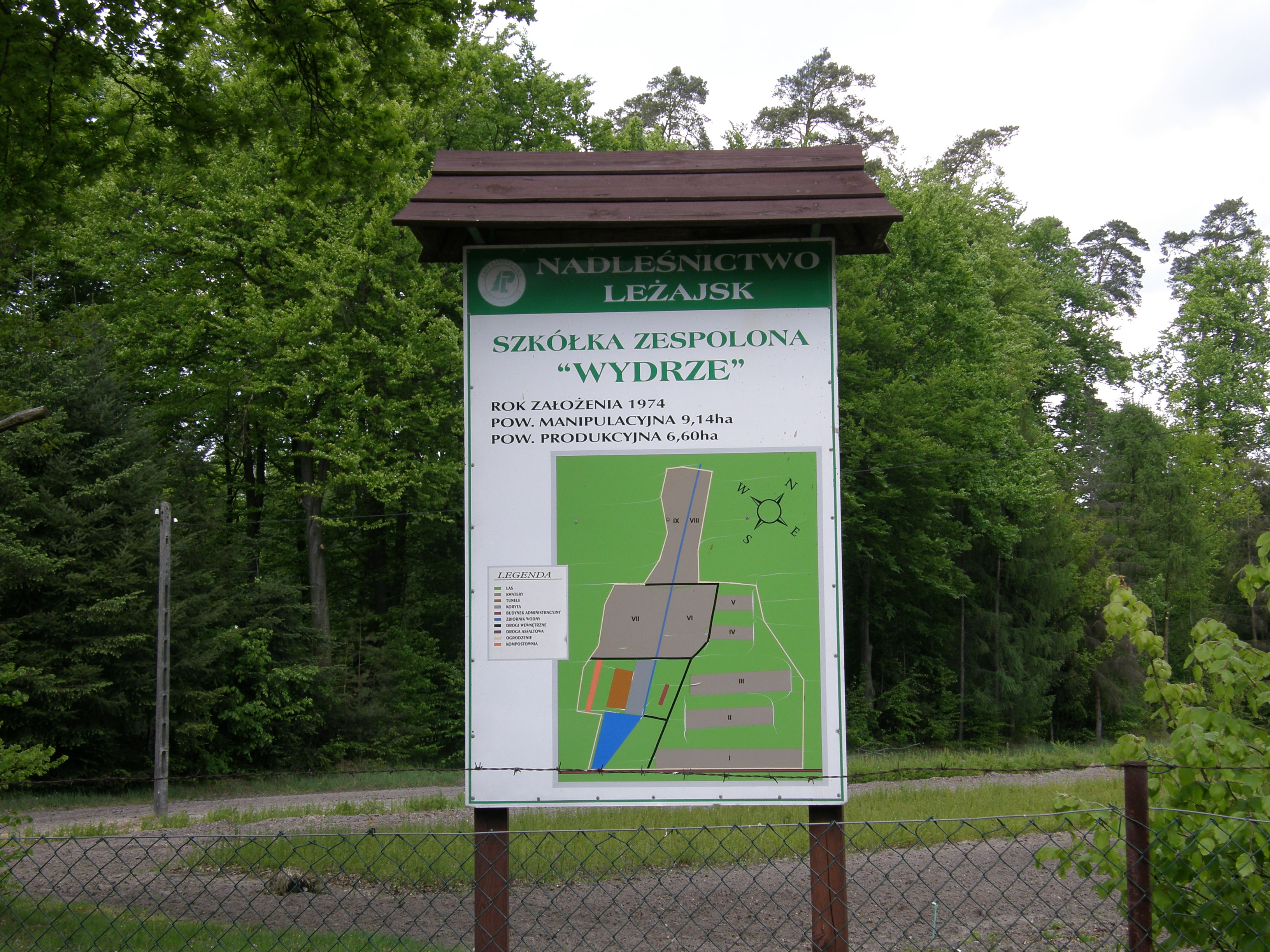 Plant nursery in Wydrze (Poland)